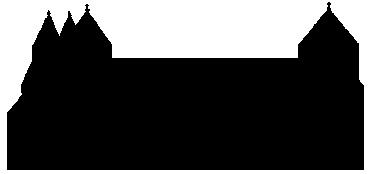 Description: cathedral of Speyer, Germany around the year 1061 Source: own work Date: November 2005 Author: --Immanuel Giel 08:26, 3 November 2005 (UTC) Other versions: none